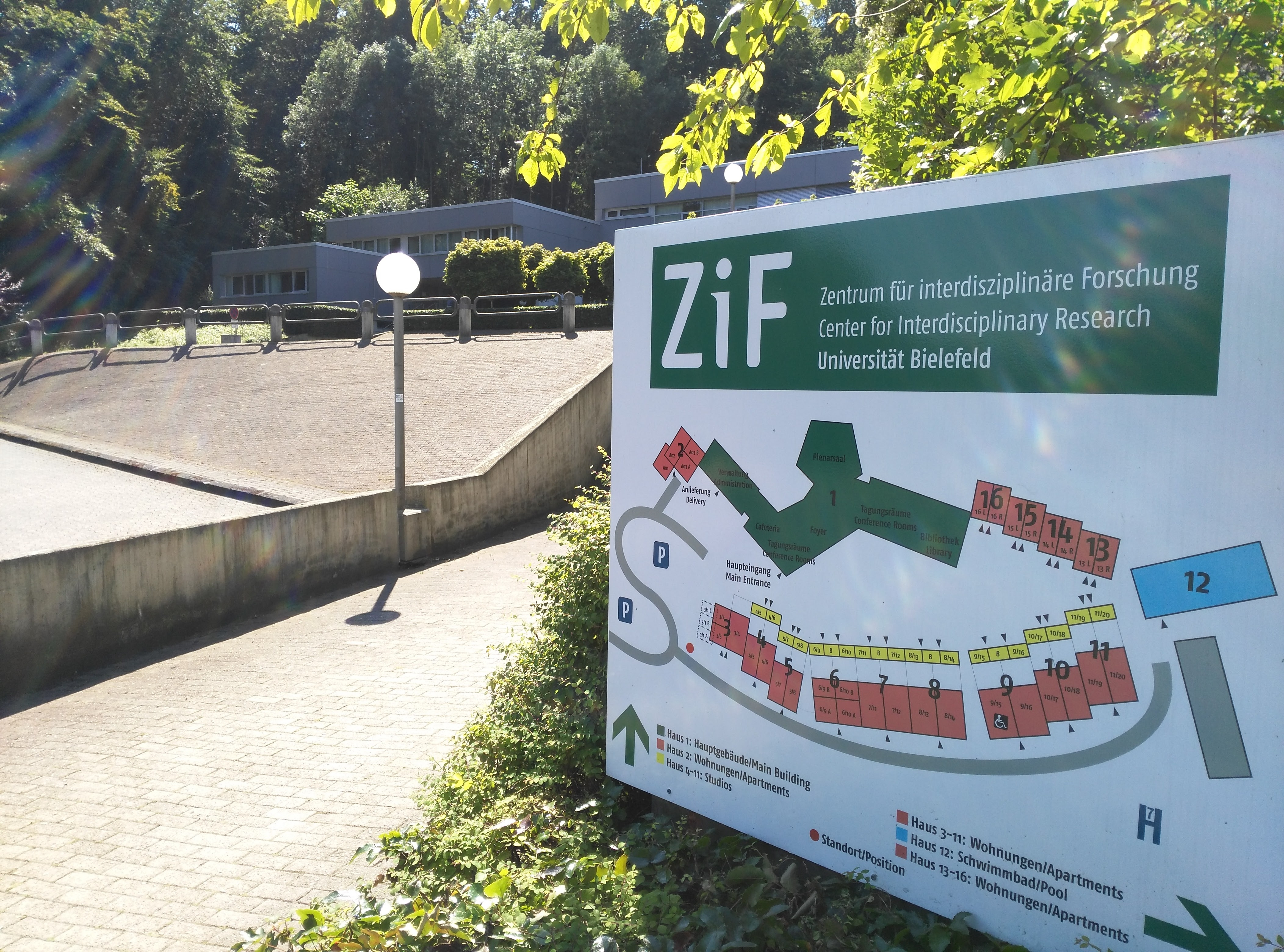 The Center for interdisciplinary Research